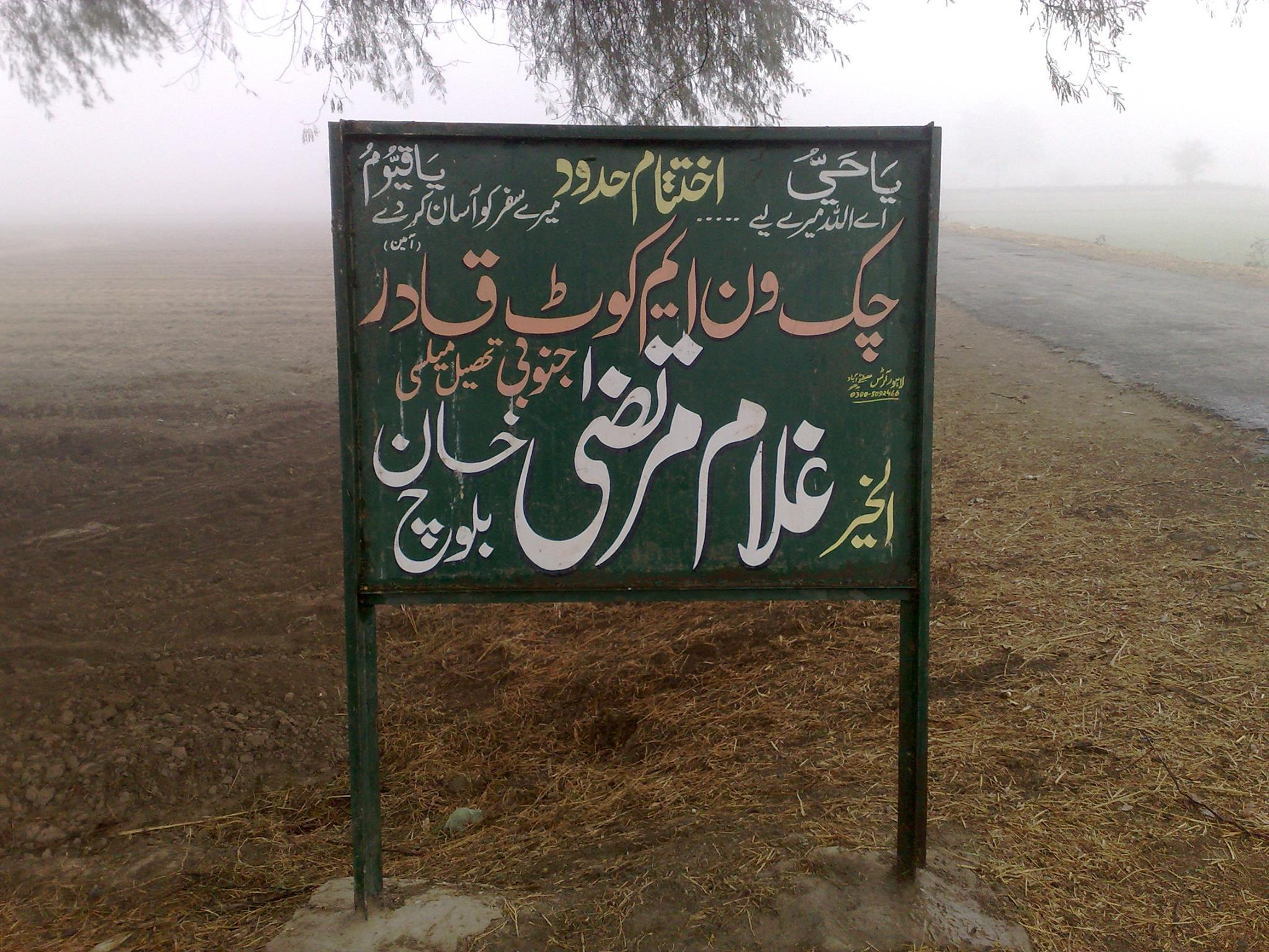 Chak 1m starting point